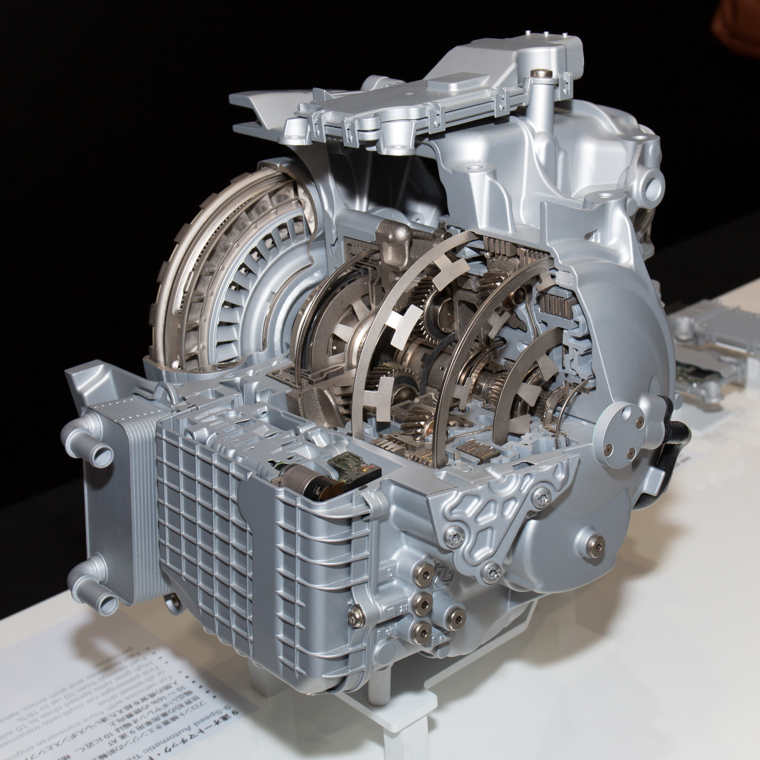 Tokyo Motor Show 2013: ZF 9-speed automatic transmission for FF layout